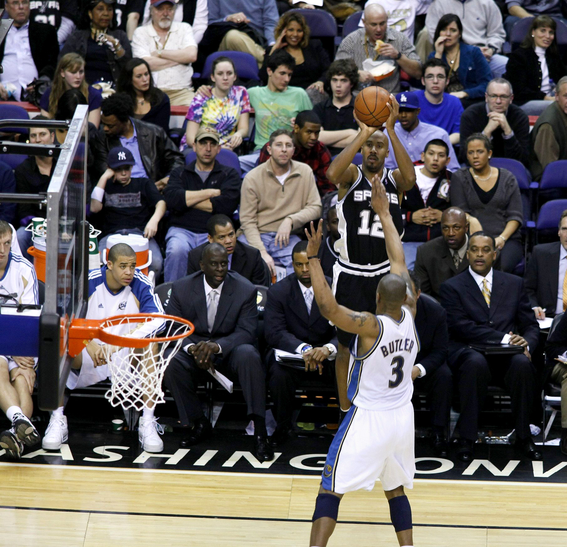 Bruce Bowen attempts a three-pointer while guarded by Caron Butler in a game played at the Verizon Center in Washington, D.C.